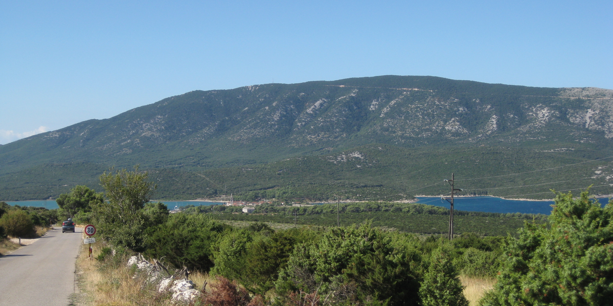 Osorščica, mountain on island Lošinj (Croatia)